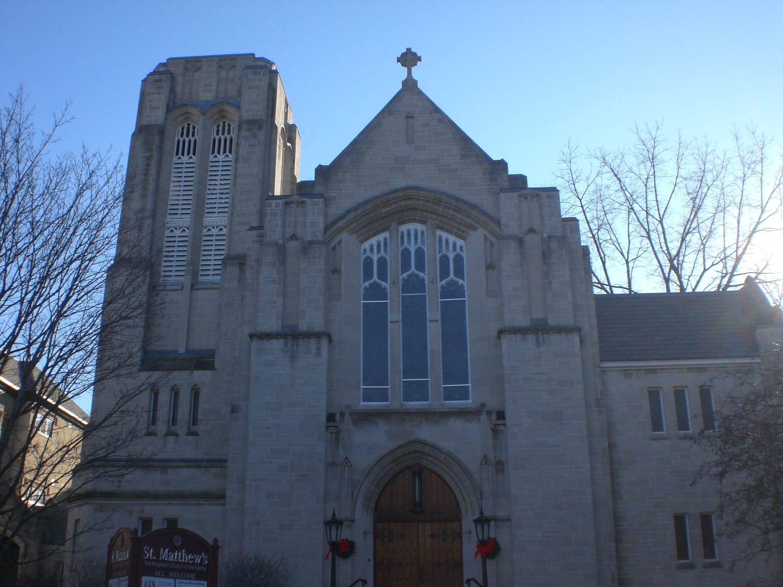 Photo of the entrance of St. Matthew Anglican Church in Ottawa. There are two churches in Ottawa dedicated to St. Matthew, the other is Romanian Orthodox.